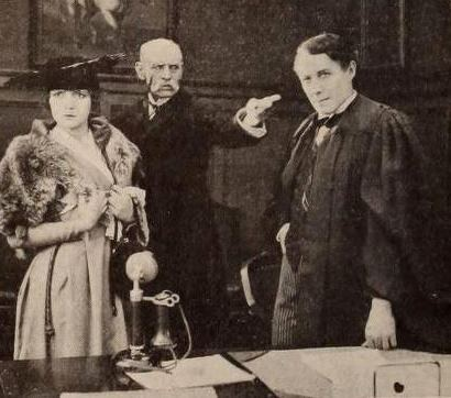 Still from the American crime drama His Robe of Honor (1918) with Lois Wilson, Joseph J. Dowling, and Henry B. Walthall, on page 20 of the December 1, 1917 Exhibitors Herald.